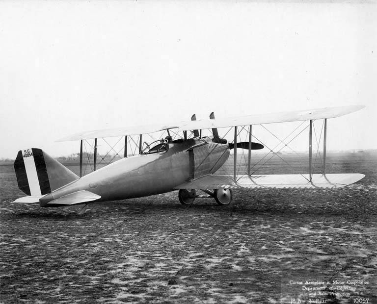 The 18-B is also known as the "Hornet."PH Coll 1180.10 The Curtiss Aeroplane and Motor Company was founded by Glenn H. Curtiss in the early 1900s. To save the companyfrom bankruptcy in the 1910s , Curtiss sold it to John N. Willys of the Overland Motor Company. With the onset of WWII the company moved its headquarters and most manufacturing activities to Buffallo, New York with a support operation in Toronto, Canada. The Curtiss Aeroplane and Motor Company made many successful aircraft and because of Curtiss' interest in water flying, it pioneered the designs for seaplanes and flying boats.